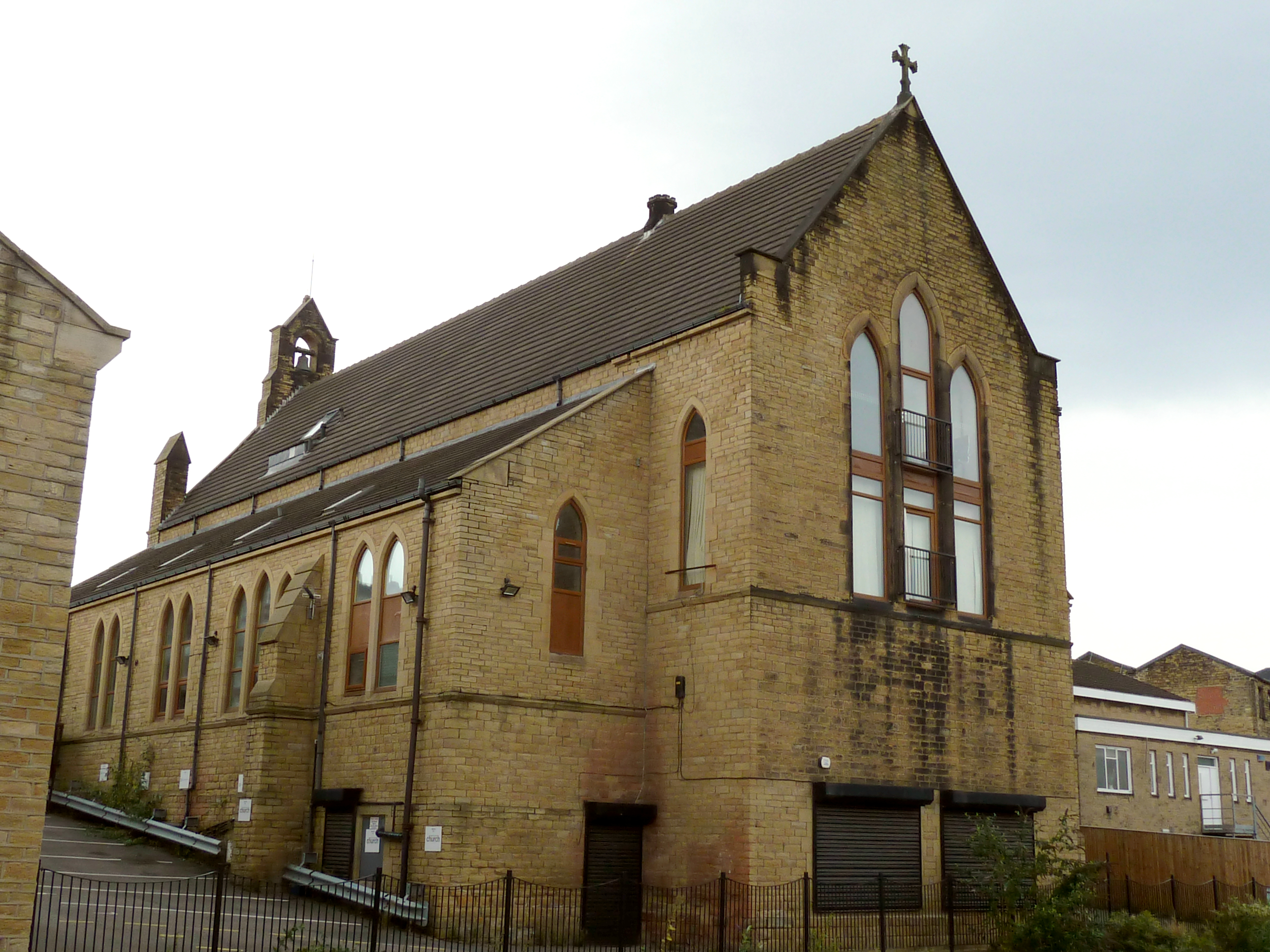 Former Church of St Mark, Old Leeds Road, Huddersfield, North Yorkshire, England. Built 1887, designed by architect William Swinden Barber. Building viewed from south-east.